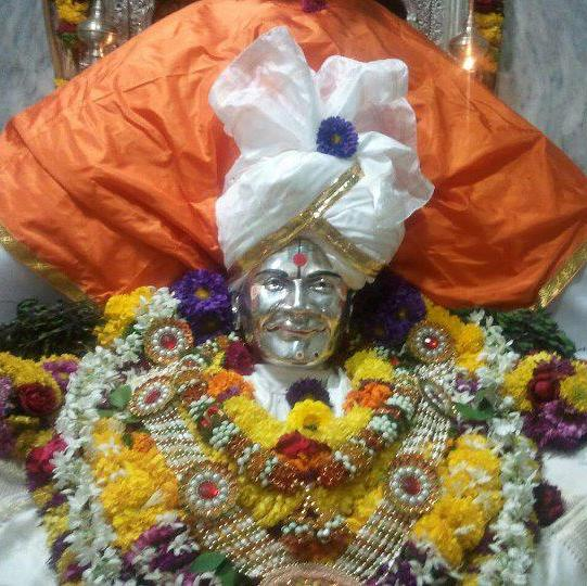 NarasimhaSaraswati (Alandi)_Samadhi Mandir